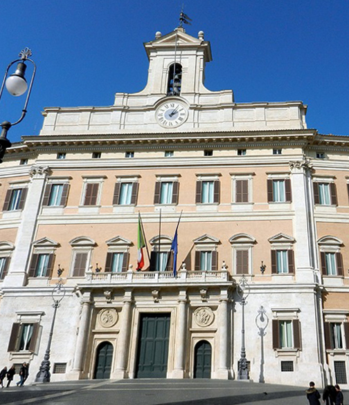 Palazzo Montecitorio, Rome